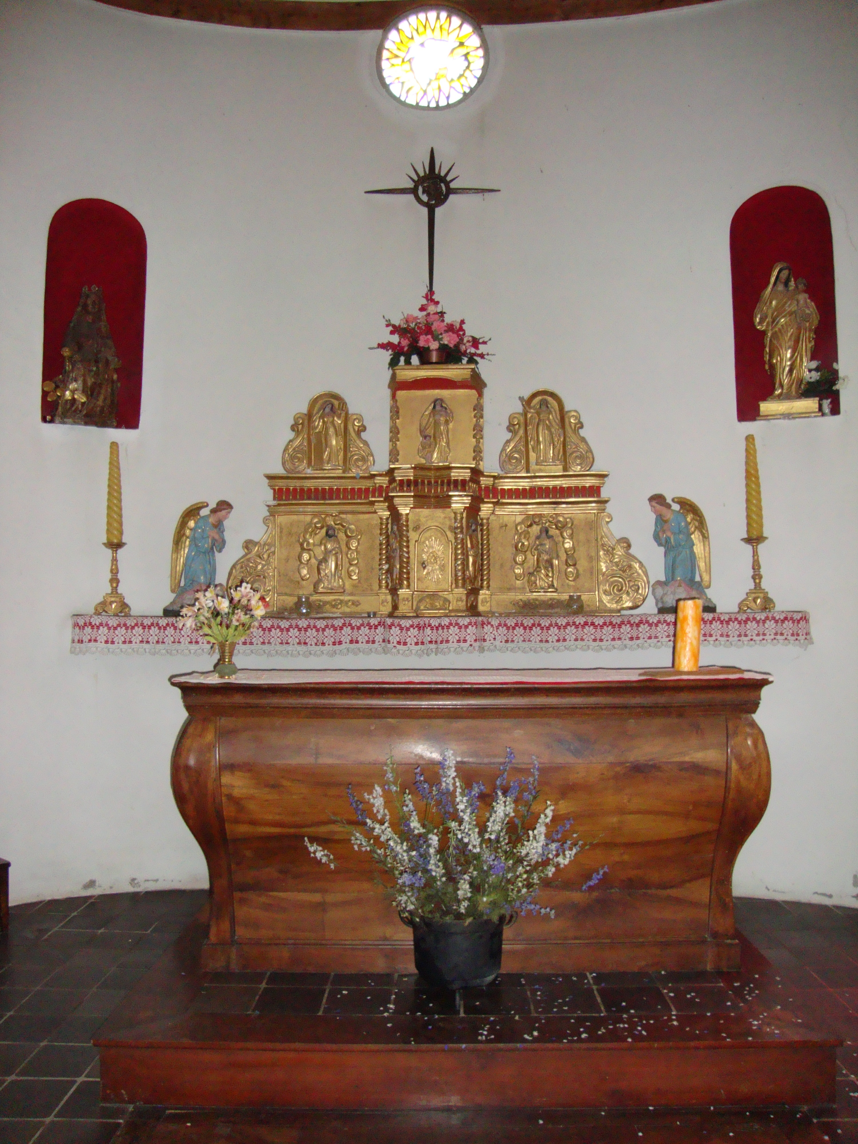 Athéry (Licq-Athéry, Pyr-Atl, Fr) Choir .